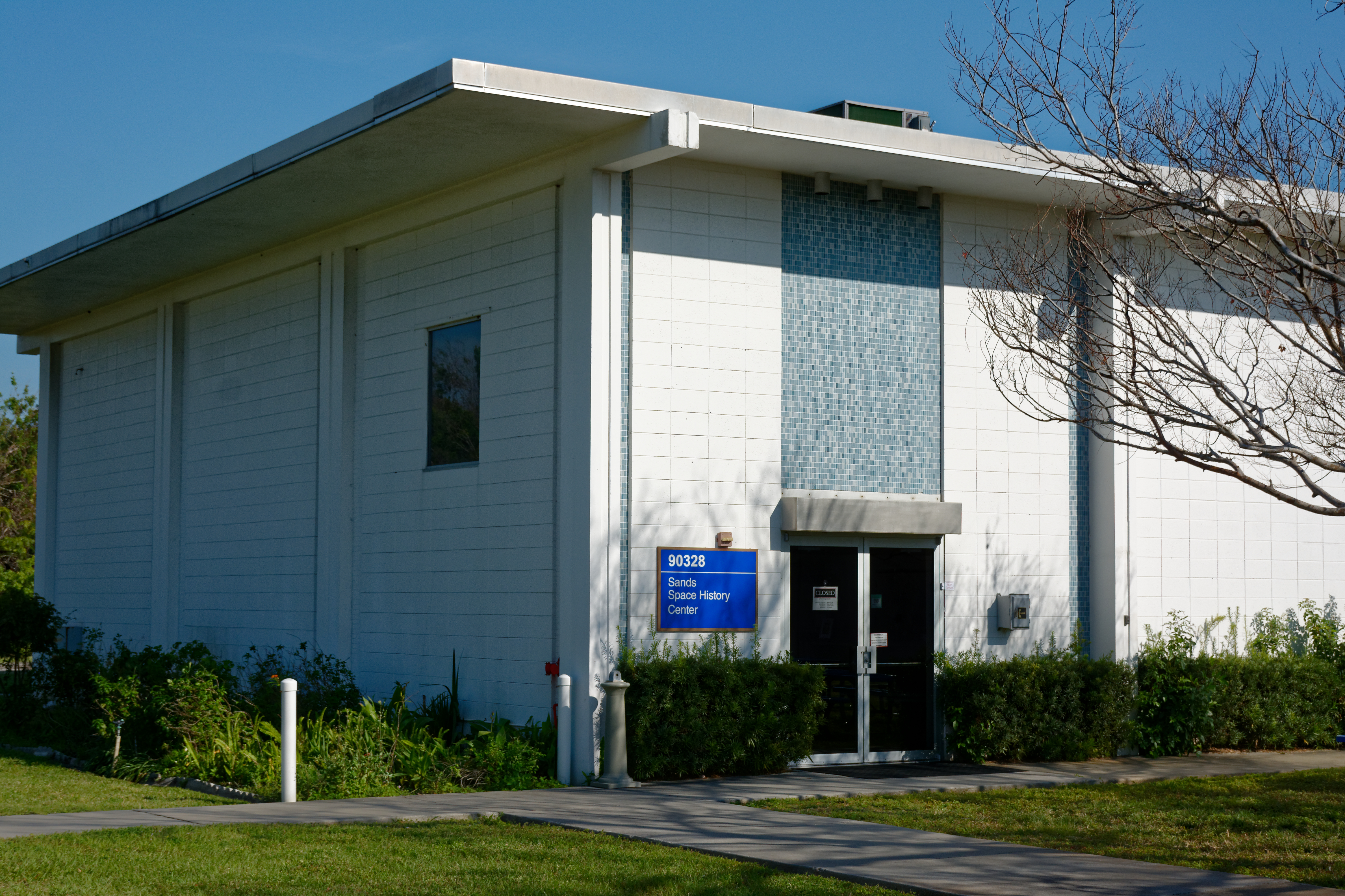 Sands Space History Center, outside gate 1 (the south gate) at Cape Canaveral, Florida, U.S. Open to the public six days a week and free of charge.